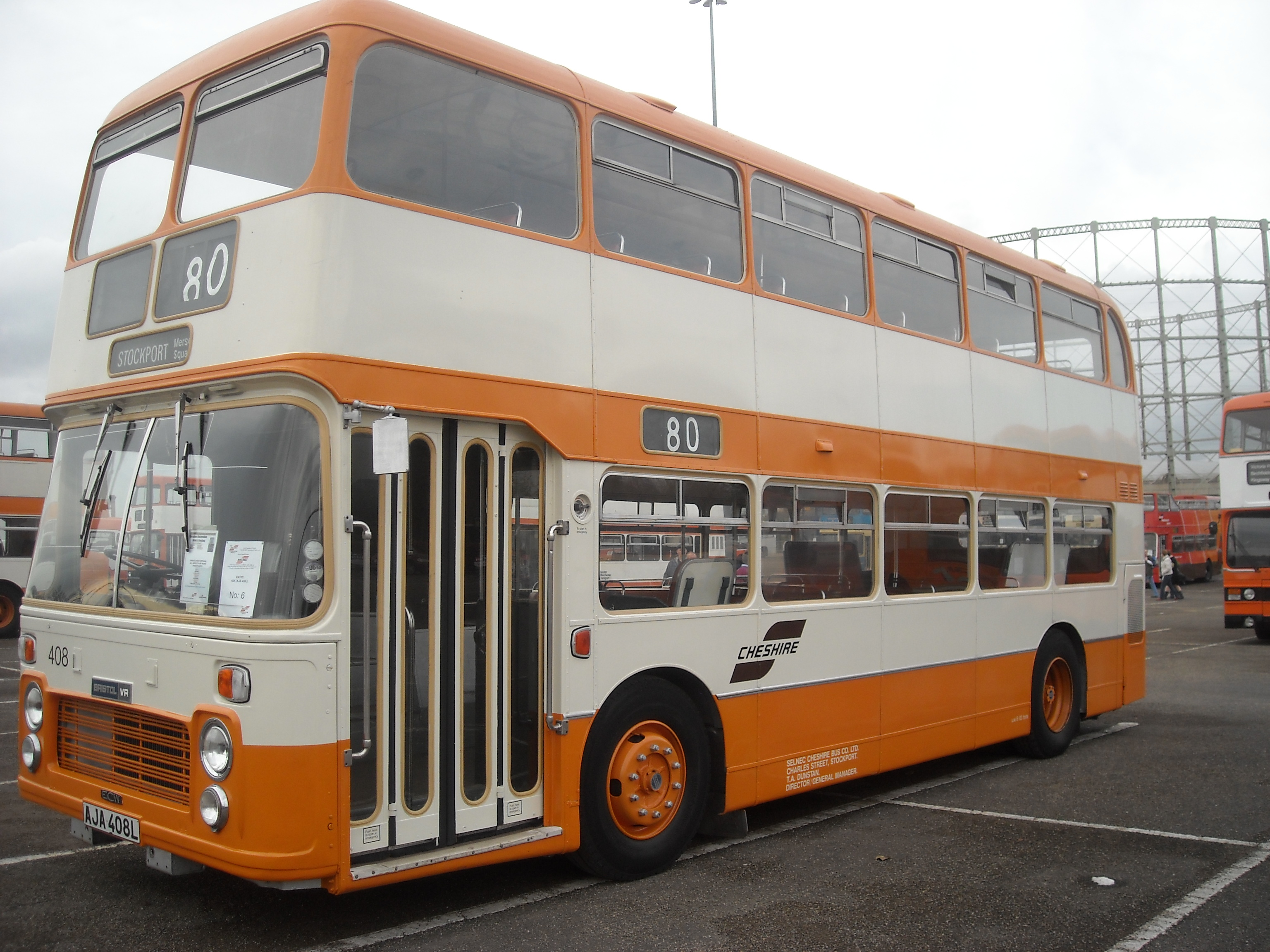 A preserved Bristol VR seen at the SELNEC 40 event at Sportcity, Manchester on Saturday 31st October 2009, it was one of 25 ordered by North Western but as SELNEC took over from them in 1972, it was delievered new to SELNEC PTE in 1973 and has a standard National Bus Company design, this is the only SELNEC Bristol VR in preservation